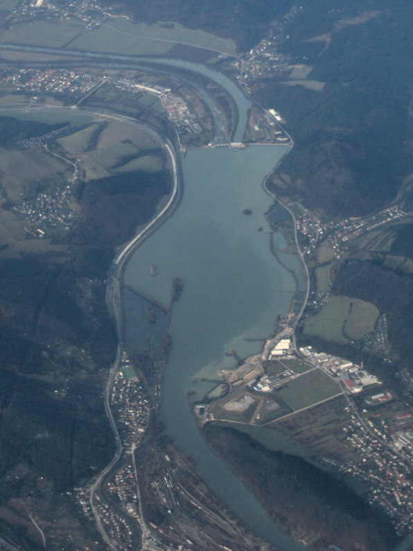 Aerial view of Hričov artificial dam on Váh river, Slovakia.